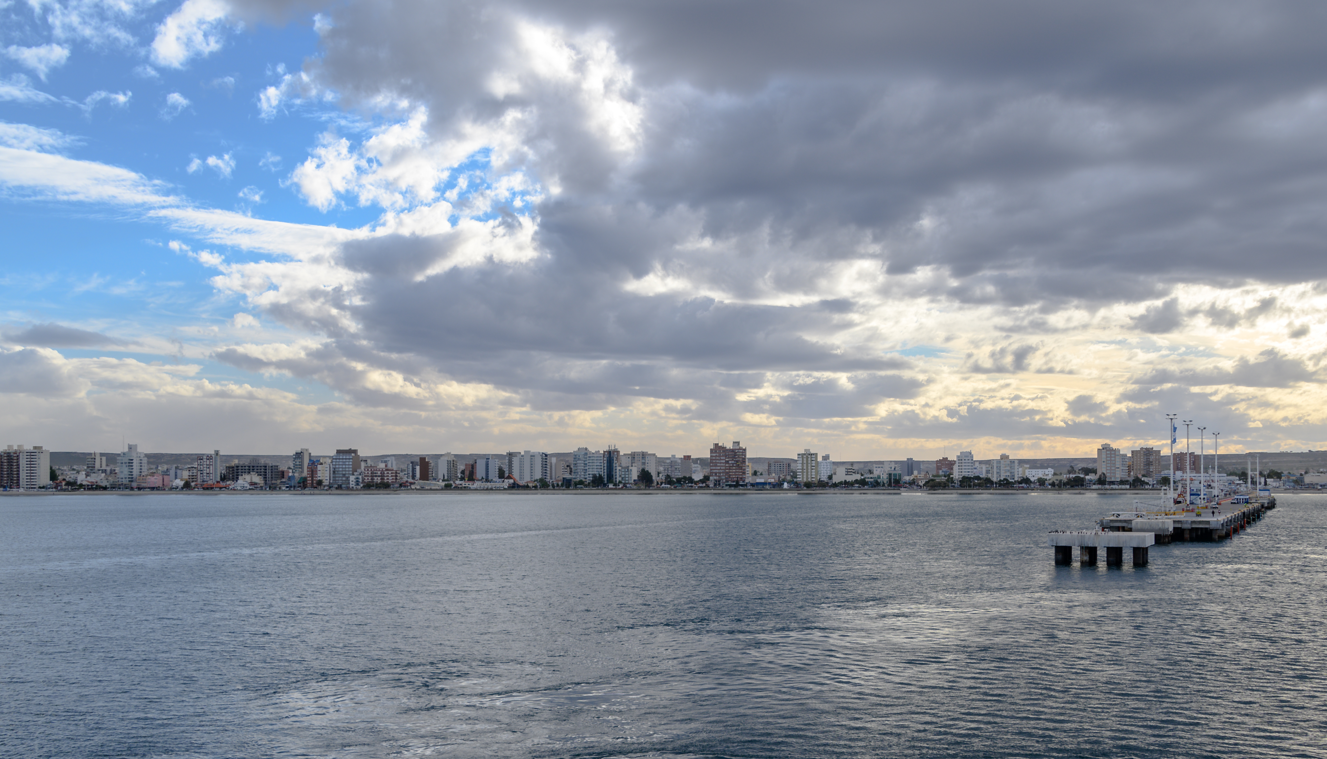 Puerto Madryn/Argentina, seen from the seaside